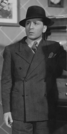 Pedro Maratea-actor argentino